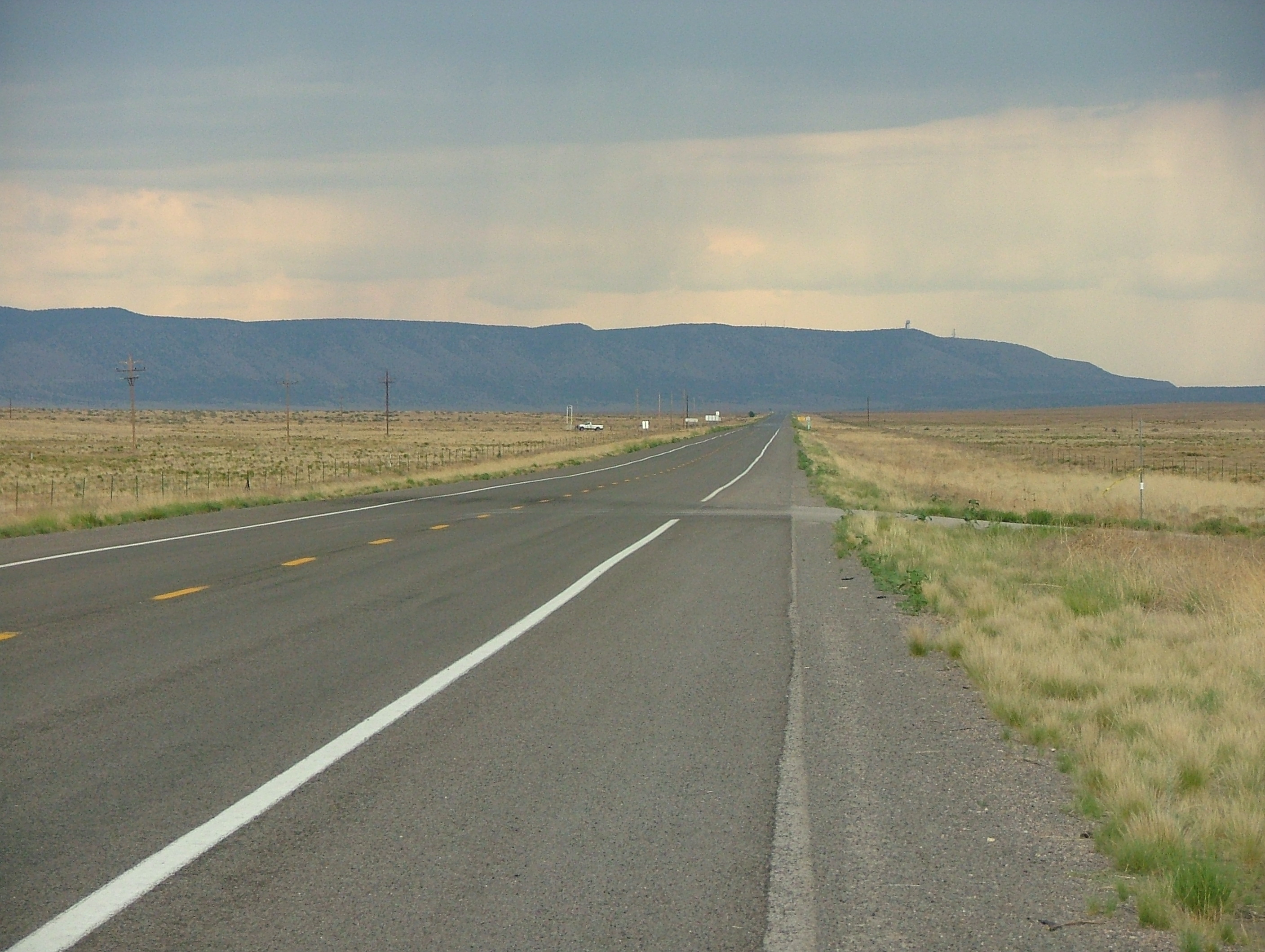 Route 66 between Kingman and Hackberry